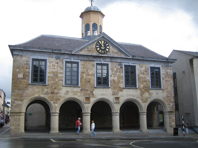 Cluain Meala (Clonmel): The Main Guard The Main Guard was originally built by James Butler, 1st Duke of Ormond, between 1673 and 1684, as a prestigous courthouse for the Palatinate of County Tipperary, at the intersection of Clonmel's four main streets. The building has many of the hallmarks of a Sir Christopher Wren design, and it seems likely that its architect was influenced by Wren's works. The Main Guard was a "Tholsel", i.e. an office where tolls, duties & customs were collected. It was Clonmel's Assize Court from 1716 until 1810 when it was converted into a barracks, hence the name. Later it was converted into shops, but fell into a sad state of dereliction. Occupying its prestigous location at the eastern end of the main thoroughfare in Clonmel, O'Connell Street, it was an eyesore to the town. However it has now been restored by the Office of Public Works, and is open to the public.